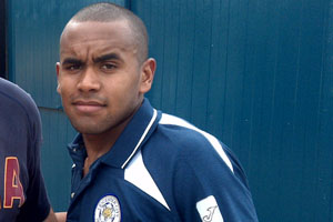 Picture of Ashley Chambers.